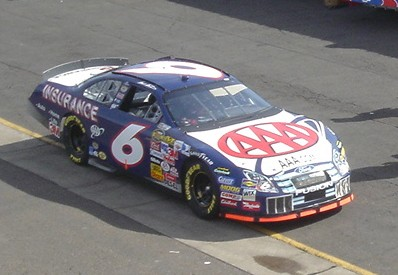 Mark Martin's No. 6 Ford